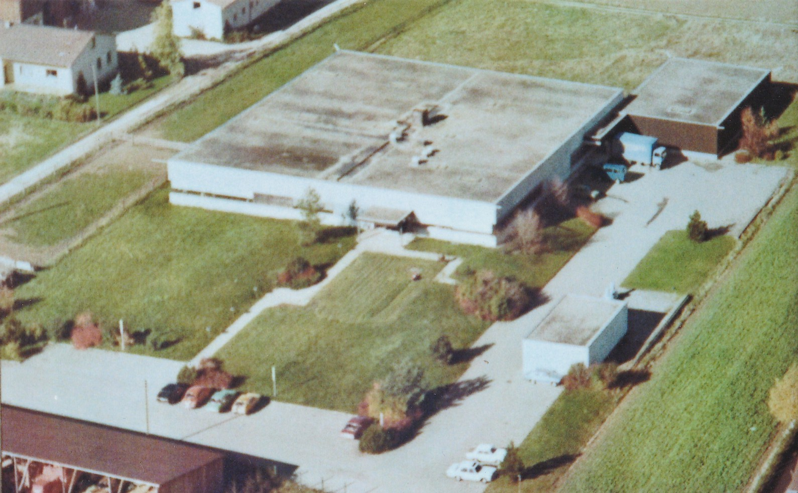 In 1970 by order of Rolfdieter Hakenmüller, chief of ´Hasana J. Hakenmüller`in Hechingen, and especially to avoid unnecessary and precious time for shifting material, the architect Schaper from Reutlingen in South-Western Germany created one of the first plain-leveled buildings for textile-production in Weilheim, a suburb of Hechingen, 60 kilometres far away from Stuttgart.